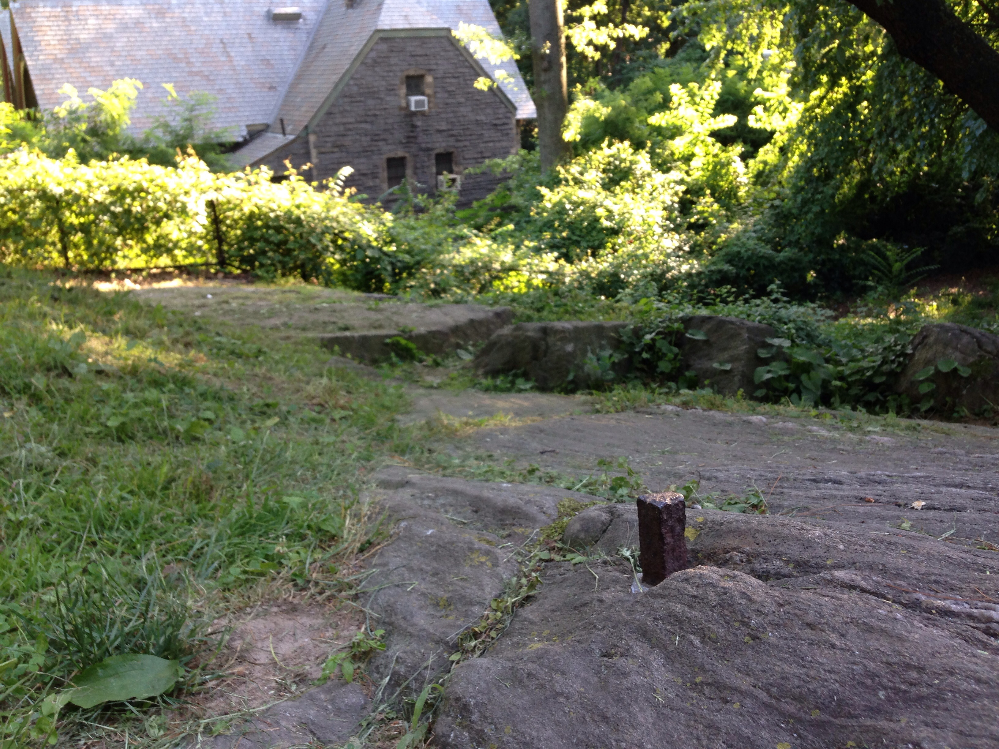 One of a few remaining of John Randel's survey bolts to mark New York City street grid as part of the plan in the 1810s. This bolt was planned for 6th Avenue and 65th Street. Reference: Central Park Bolt from The 25 Best Nerd Road Trips by Popular Science.